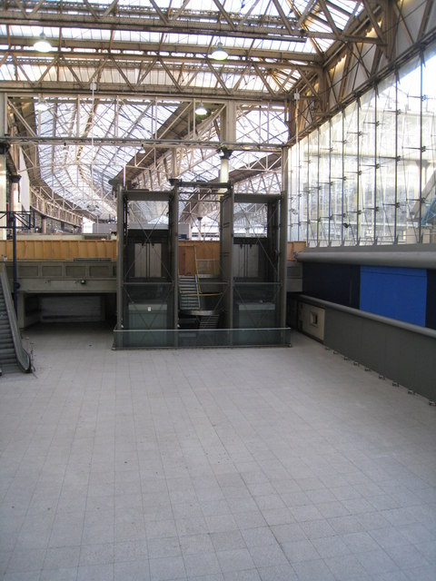 Former Eurostar terminus - Waterloo. A stark contrast to the modern day St Pancras station. 1732533.